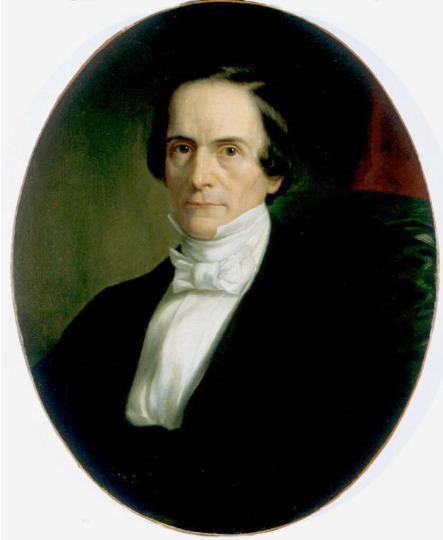 Henry Wheaton Artist George Peter Alexander Healy, 15 Jul 1813 - 24 Jun 1894 Sitter Henry Wheaton, 27 Nov 1785 - 11 Mar 1848 Date c. 1847 Type Painting Medium Oil on canvas Dimensions 67.2 x 54cm (26 7/16 x 21 1/4") Sight: 76.2 x 60.8cm (30 x 23 15/16") Credit Line Current Owner: Brown University Website: Object number BP157 Data Source Catalog of American Portraits See more items in Catalog of American Portraits